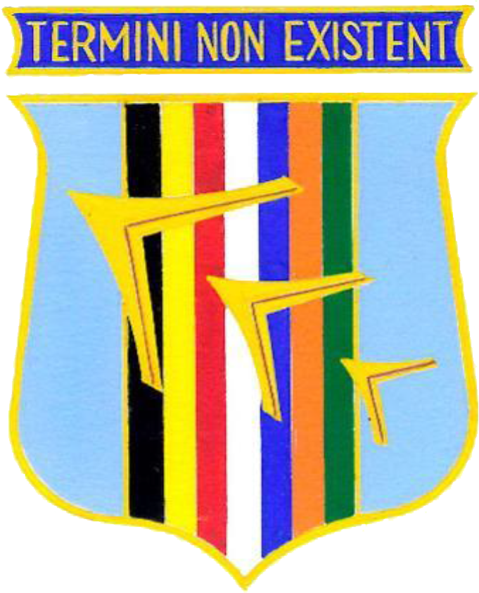 Emblem of the 60th Troop Carrier Wing, 1948